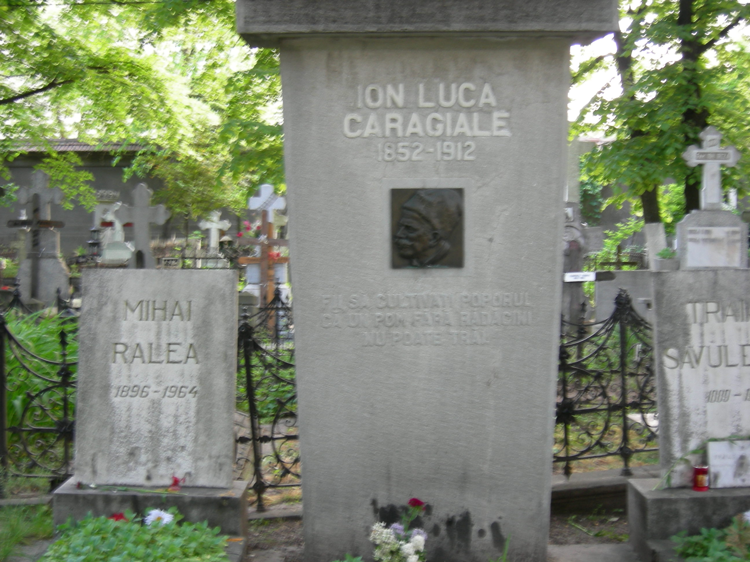 Grave of Romanian playwright and short-story writer Ion Luca Caragiale; Bellu cemetery, Bucharest, Romania 015